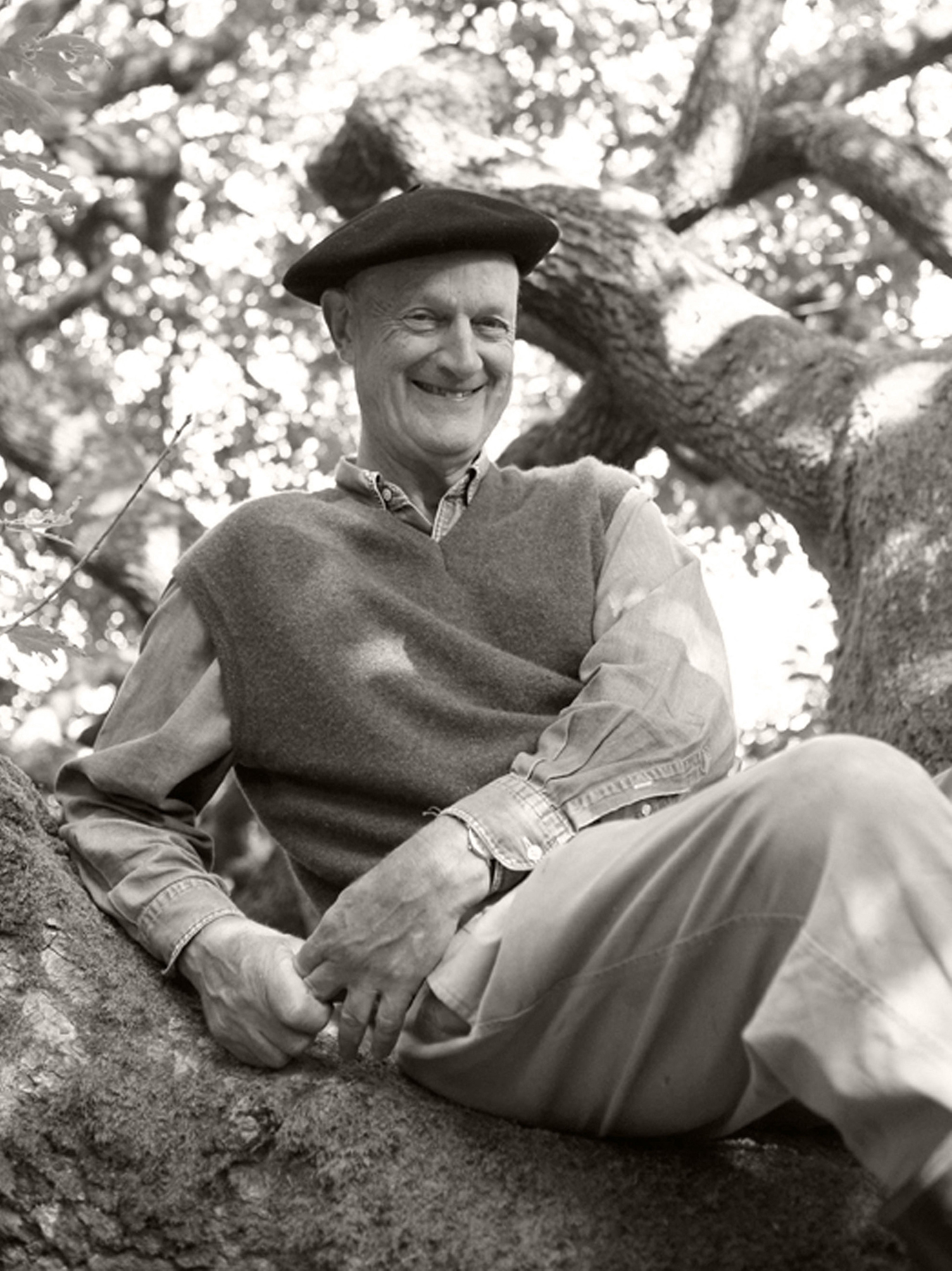 Andrew Lawson photographed by Charlie Hopkinson.